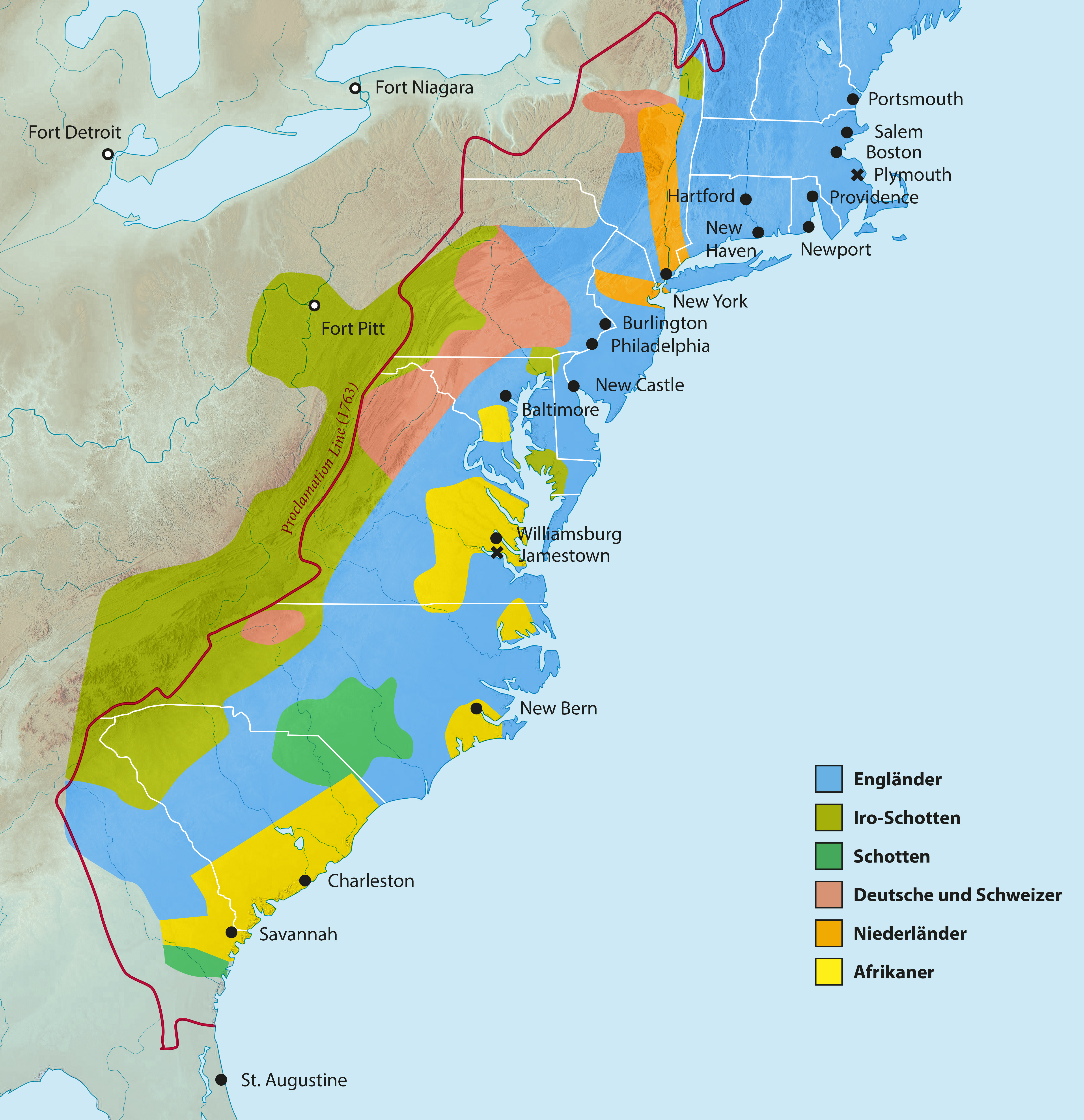 Population Composition and Settlement Priorities in the Thirteen Colonies in North America.